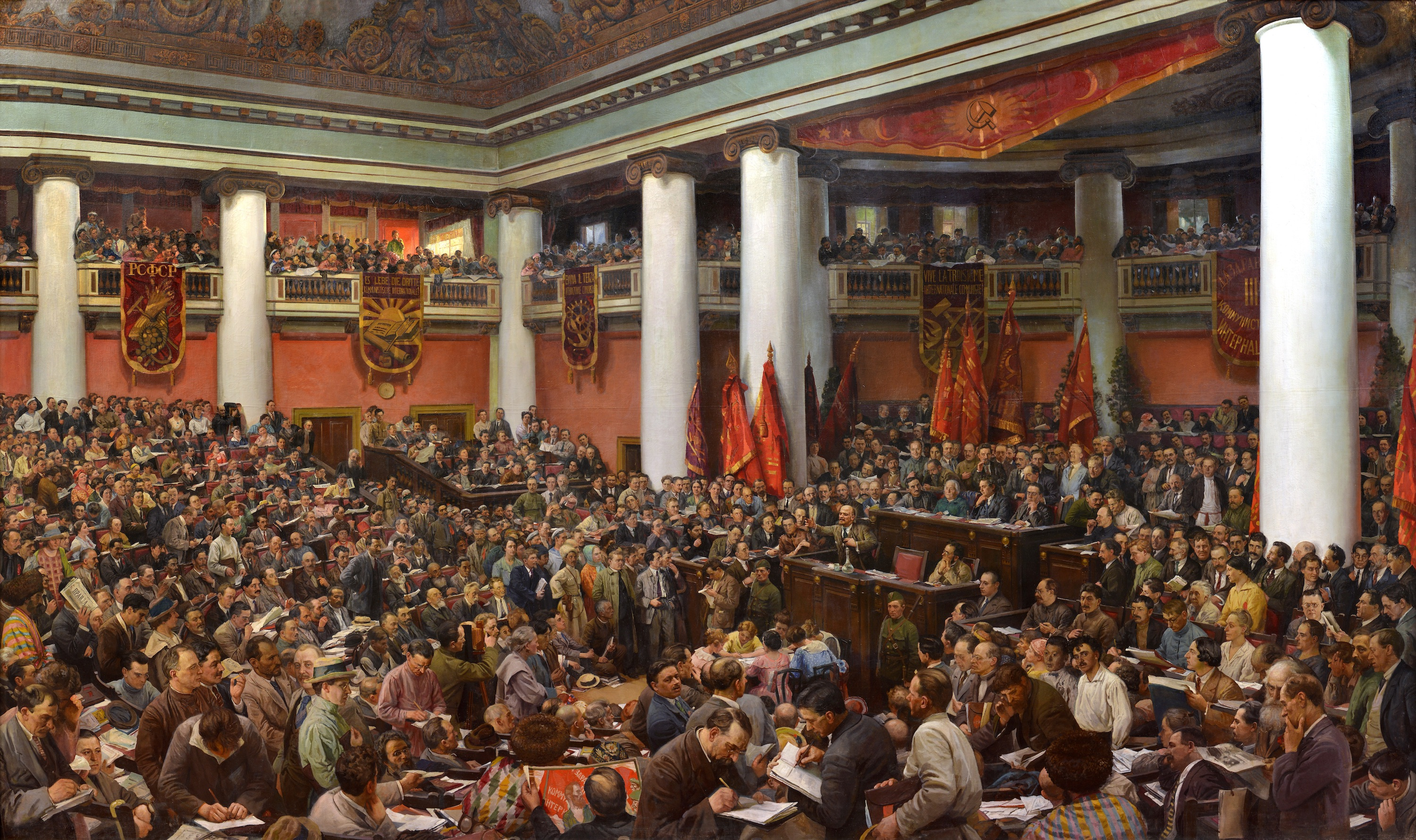 Isaak Brodsky. Lenin's speech on the 2nd World Congress of the Comintern. 1924. State Historical Museum.